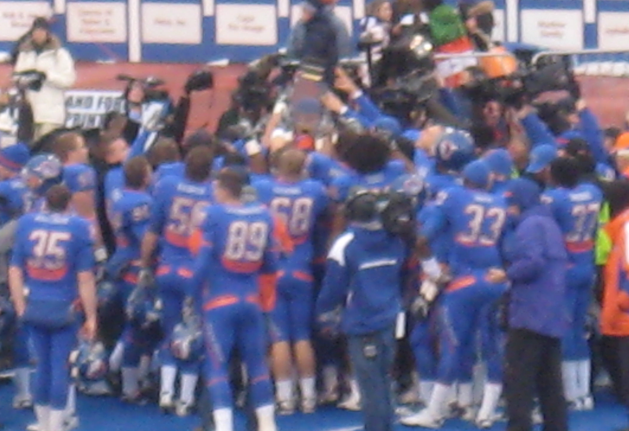 Boise State football players celebrate with the WAC trophy after winning their 8th and final conference championship by defeating Utah State on December 4, 2010 at Bronco Stadium in Boise, Idaho.